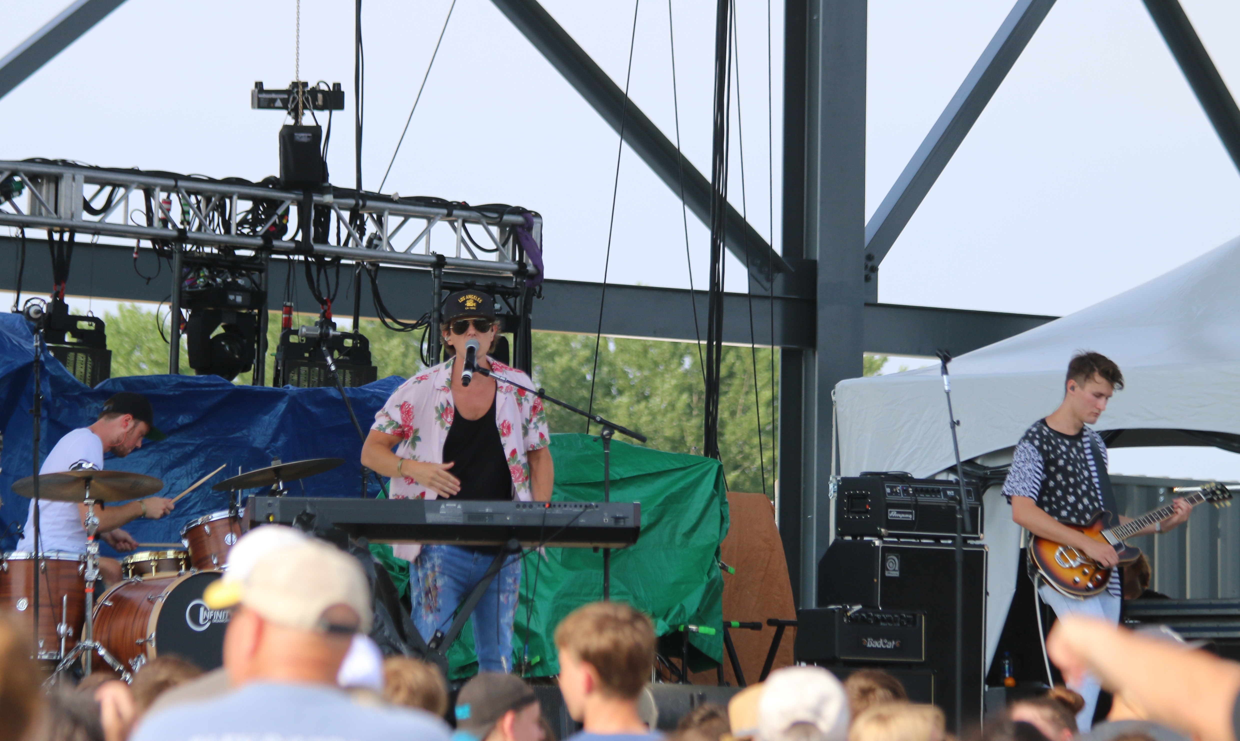 Stars Go Dim performing on the main grandstand stage at Lifest.